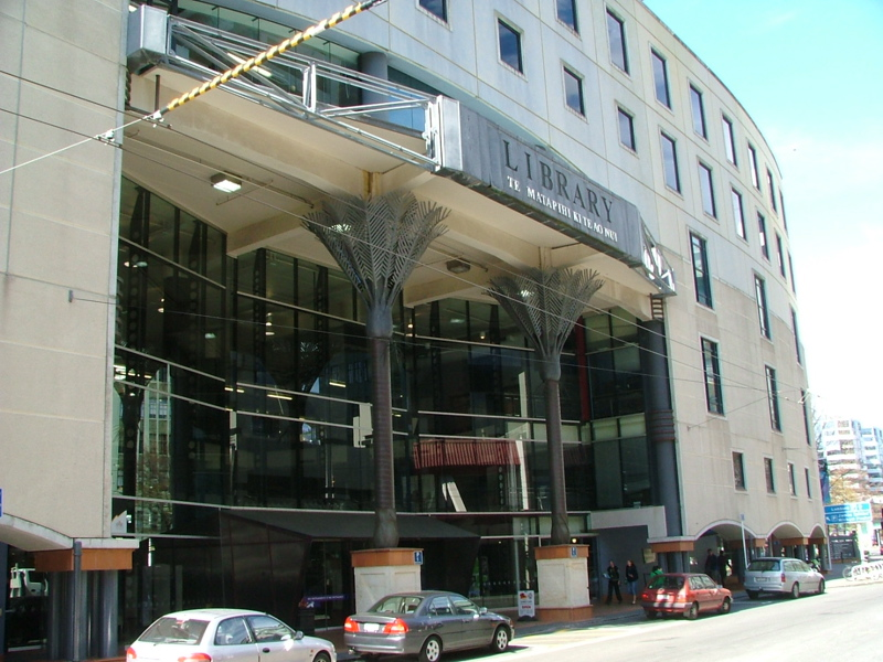 Wellington Public Library, 65 Victoria Street, Wellington, New Zealand